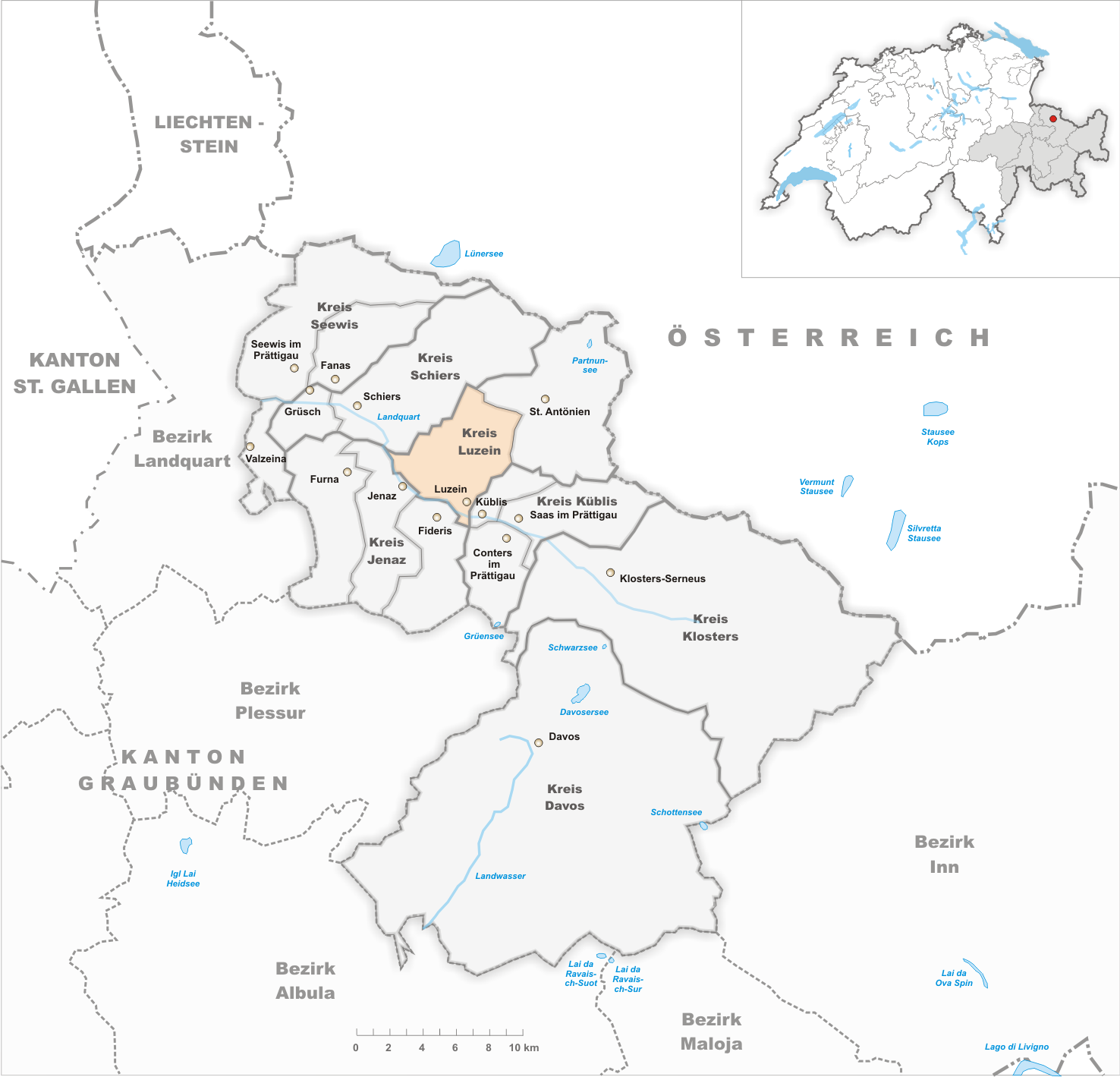 Municipality Luzein